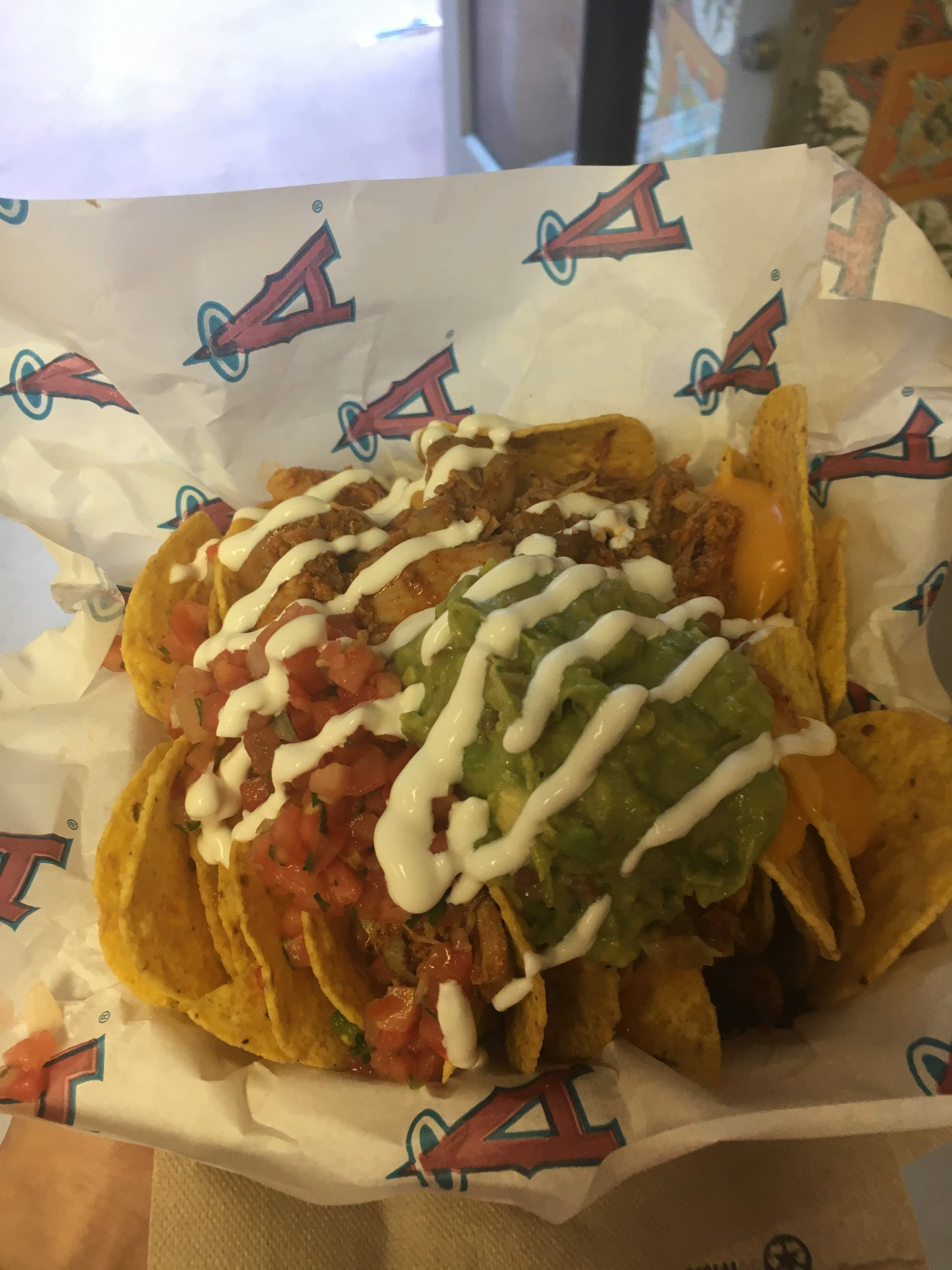 the "nacho mama" at angel stadium - anaheim, ca with cheese, chicken, pico de gallo, sour cream, and guacamole